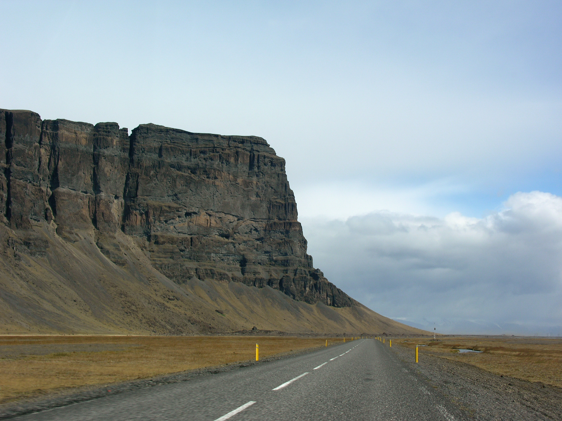 Iceland, along road # 1 in Southern Iceland